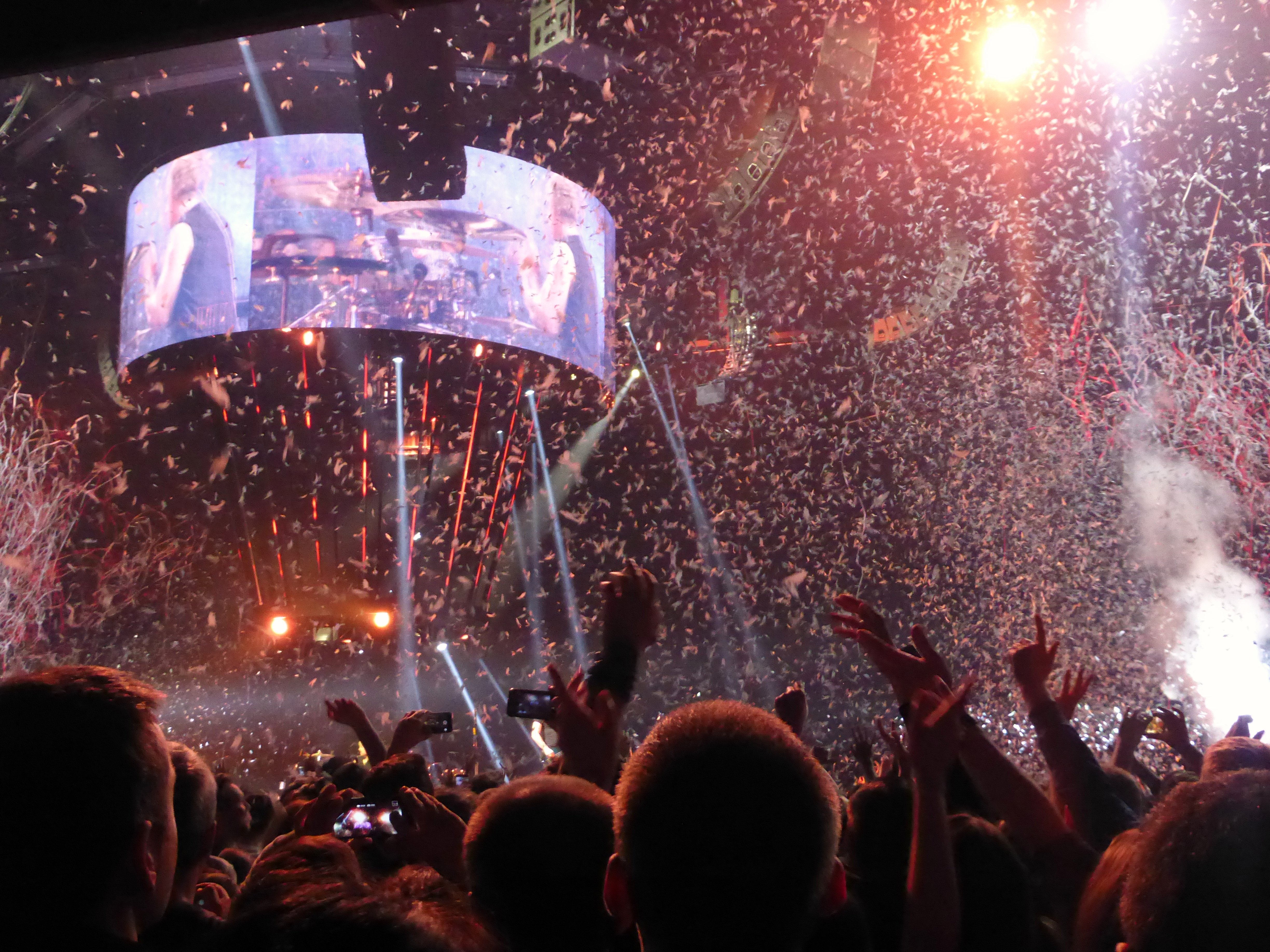 Concert at the 3Arena, part of the Drones World Tour by Muse.